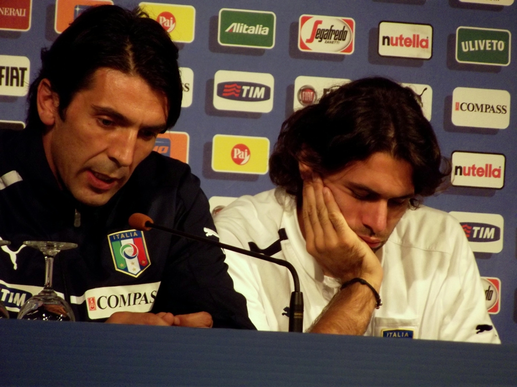 Gianluigi Buffon and Salvatore Sirigu meet the journalists prior to the start of a training session in Kraków.